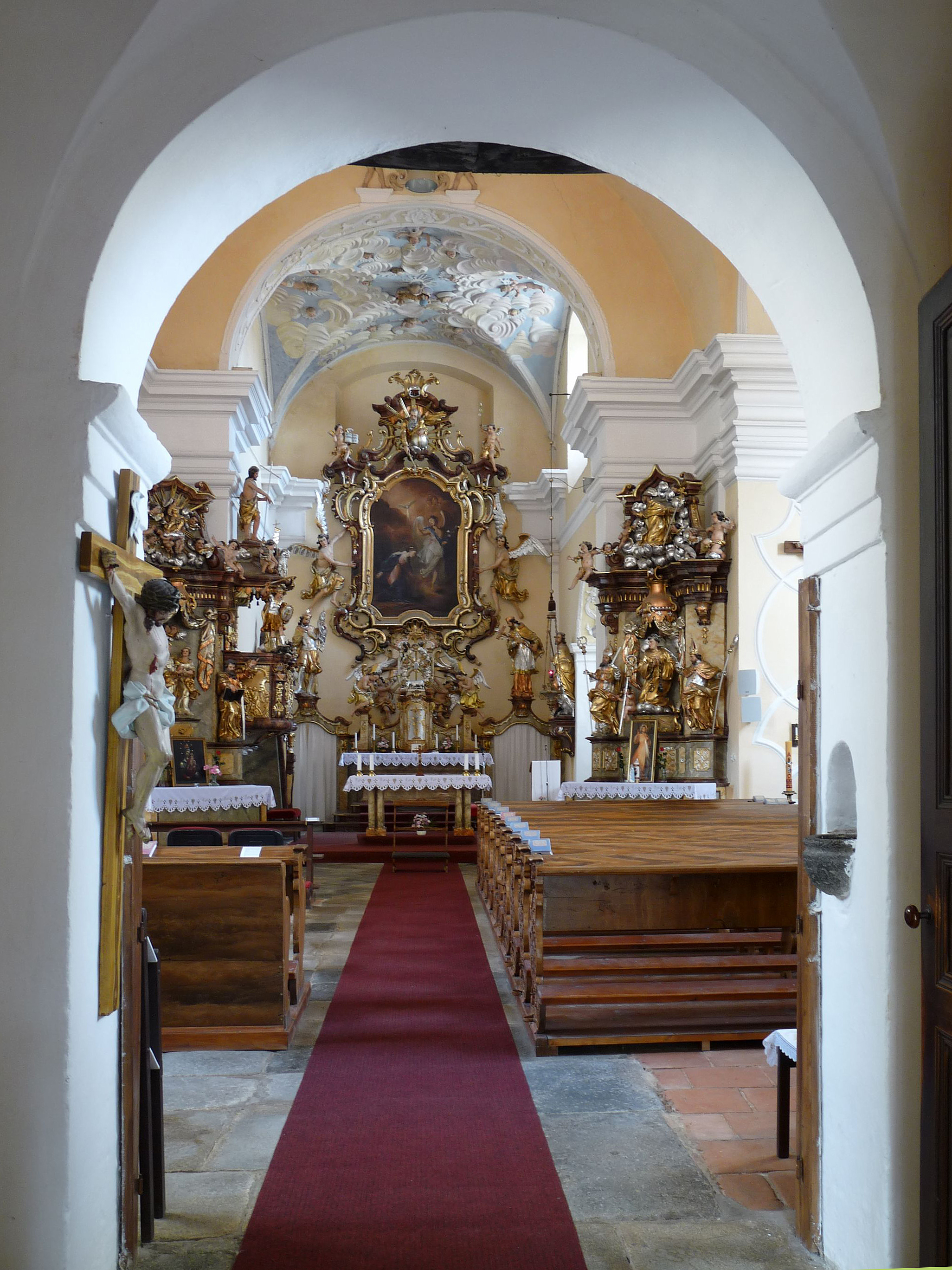 Interior of the Church of the Annunciation in the town of Vlachovo Březí, Prachatice District, Czech Republic.